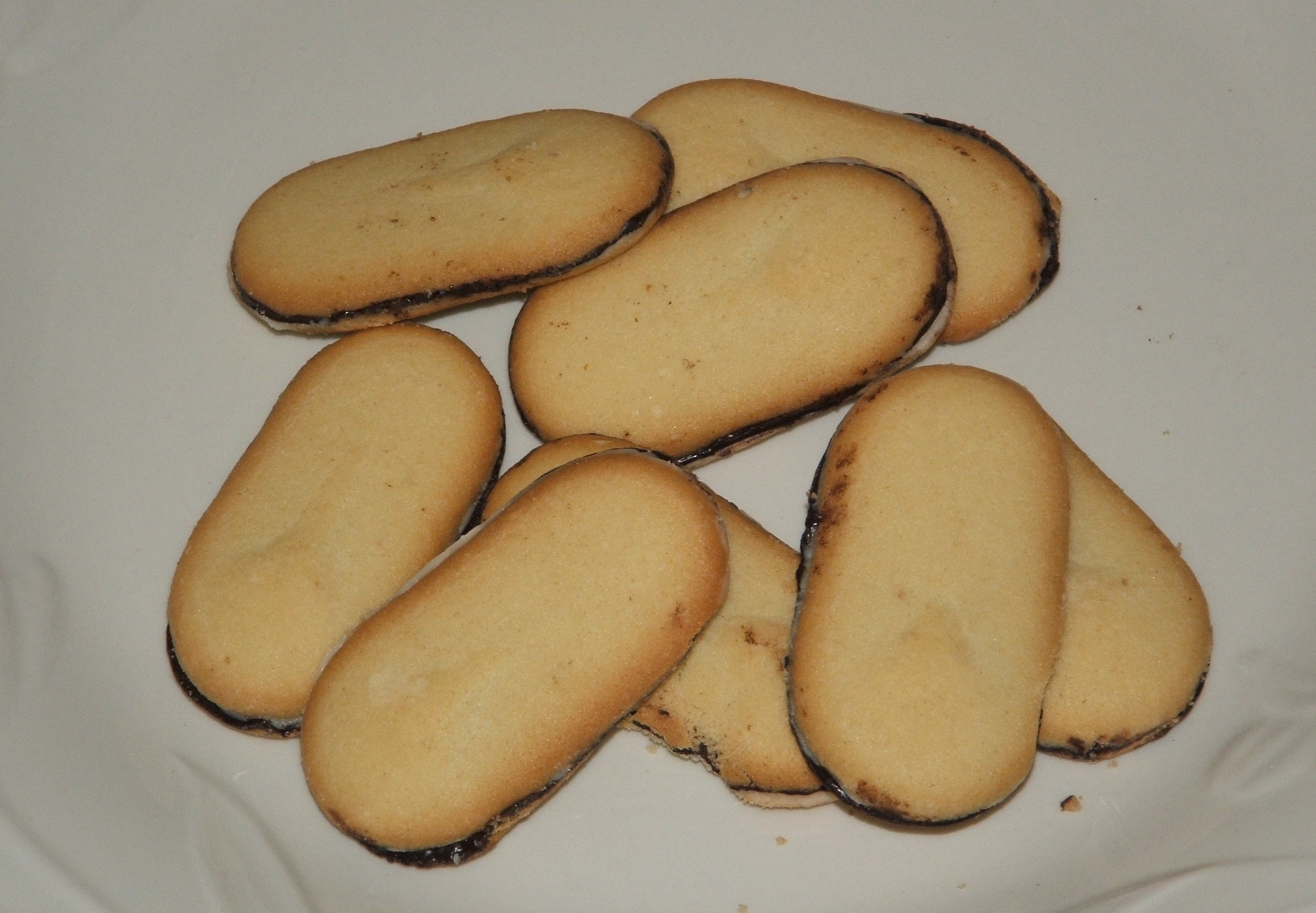 Milano mint chocolate cookies by Pepperidge Farm, Inc., Norwalk CT (USA)